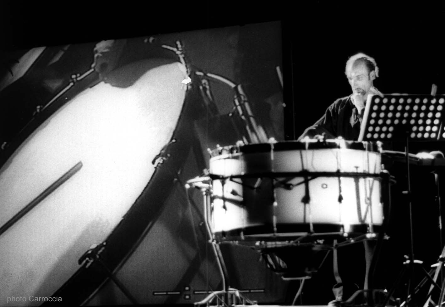 Première of Gran Cassa, Alessandro Tomassetti plays an Imperial Bass Drum Corpi del suono 1999 – Istituto Gramma, L’Aquila - Italy